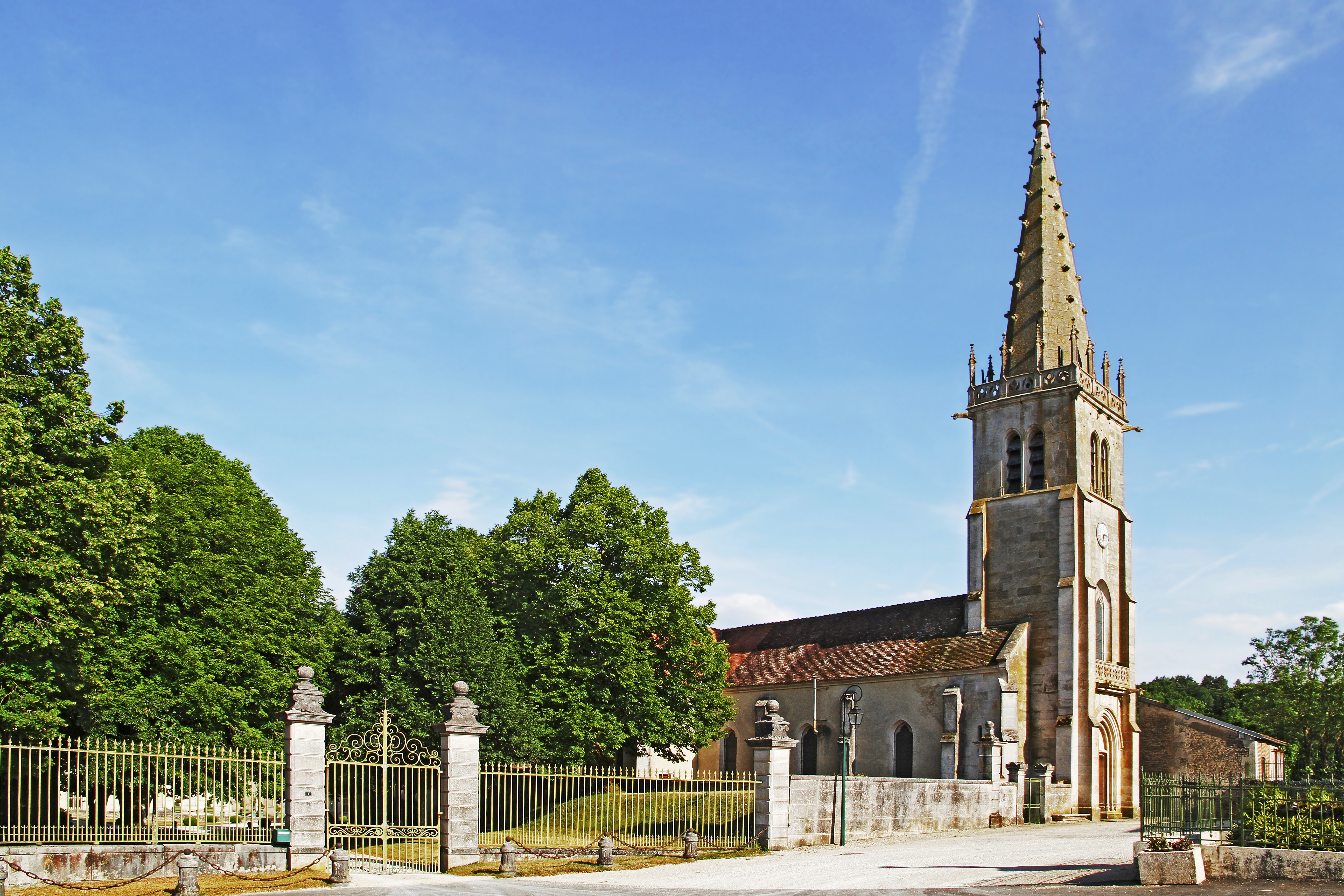 Church of Saint Vallier in Montmoyen